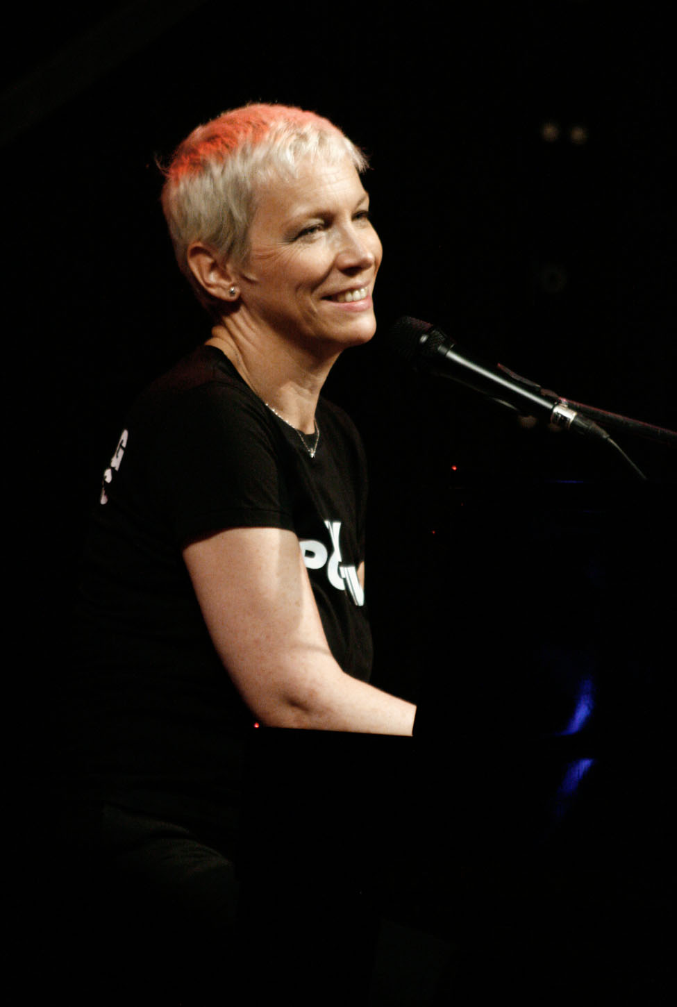 Annie Lennox performing at the Rally For Human Rights during the International AIDS Conference 2010 in Vienna as part of her SING Campaign.